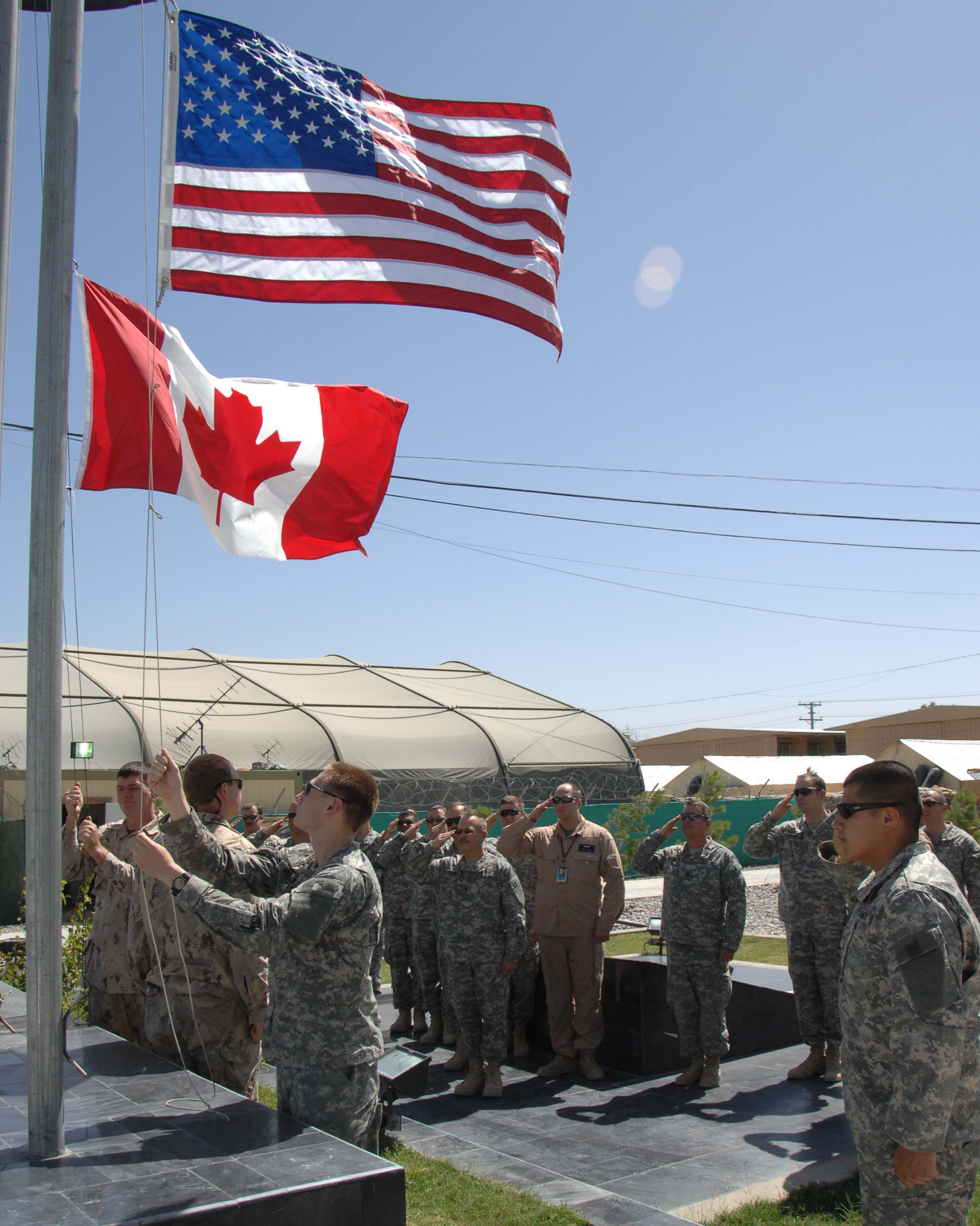 Coalition soldiers gather to commemorate the 65th anniversary of 1st Special Service Force in Bagram, Afghanistan on 9 July 2007. The 1st Special Service Force consisted of elite soldiers from both Canada and United States who conducted numerous pertinent operations during World War 2. (US Army photo by SPC Keith D. Henning.)